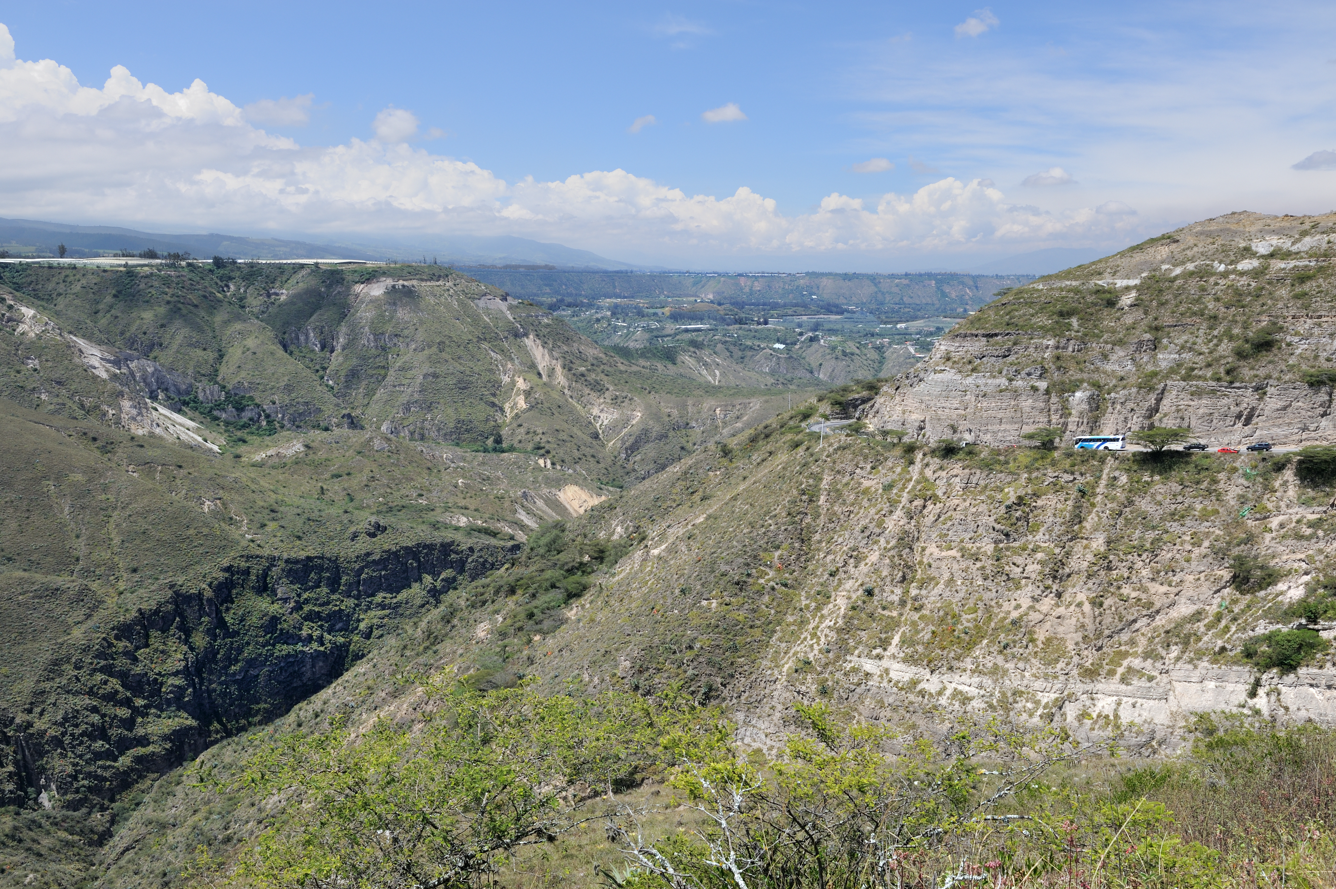 Ecuador: Andean landscape in the environs of the town of Cayambe. Altitude: 2408 m a.s.l.